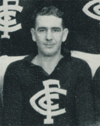 Lance Collins from 1942-1945